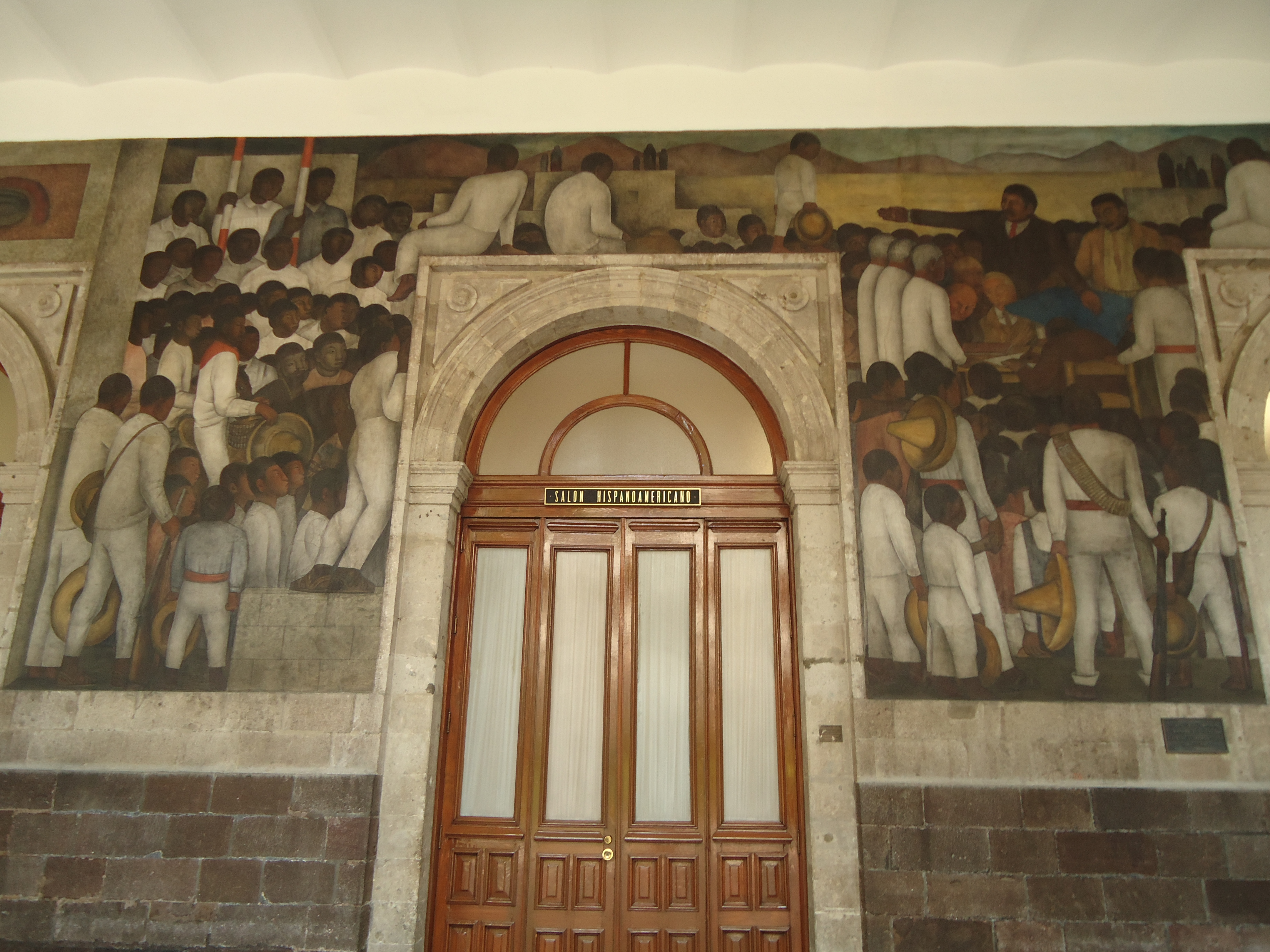 The Giving of the Community Ranges by Diego Rivera in the SEP